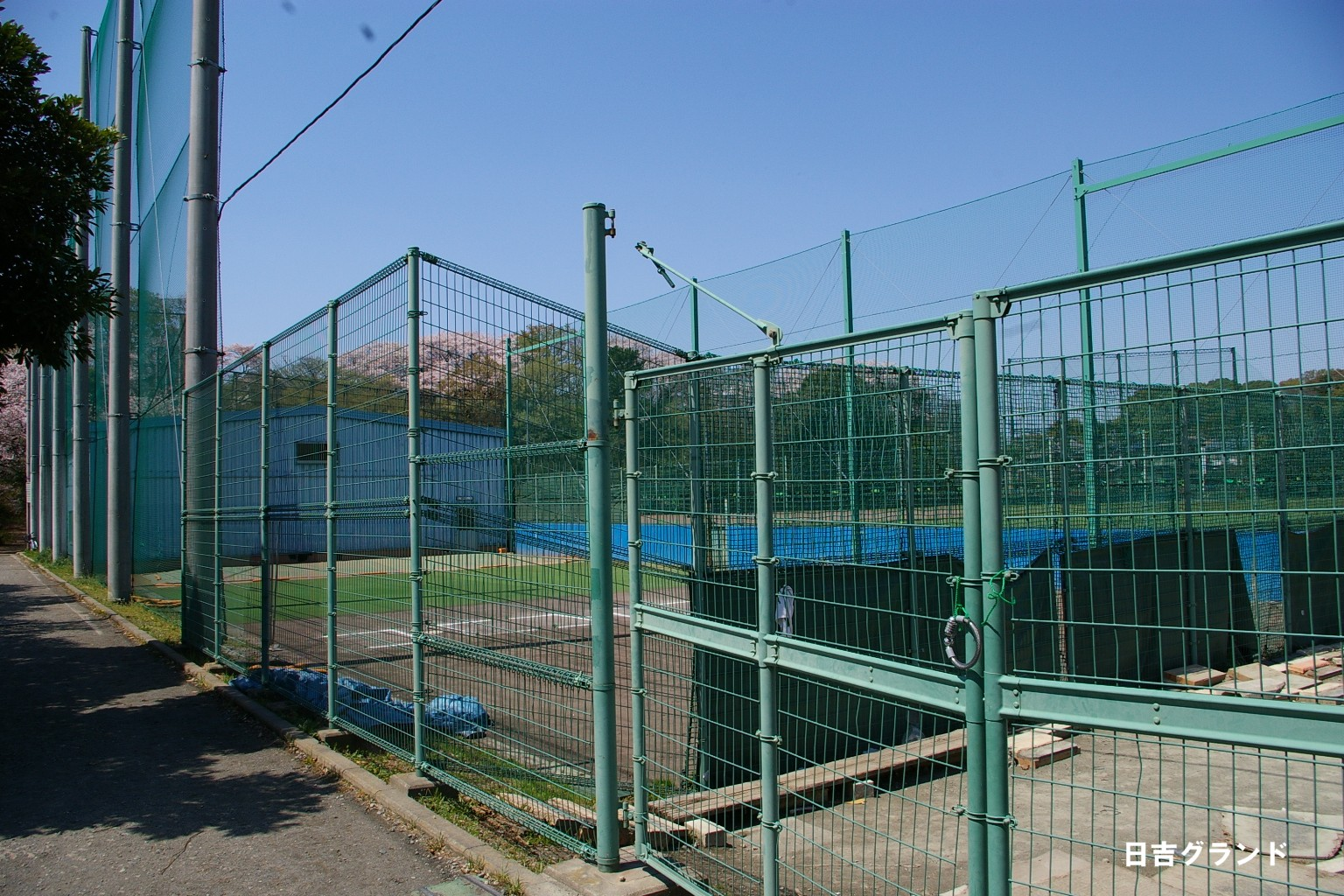 Hiyoshi